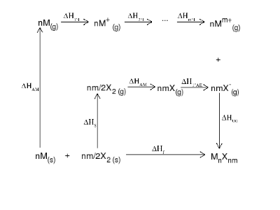 Graphic of a generic Born-Haber cycle create by me Kantor with XChemDraw on GNU/Linux System Resolution: 400x300